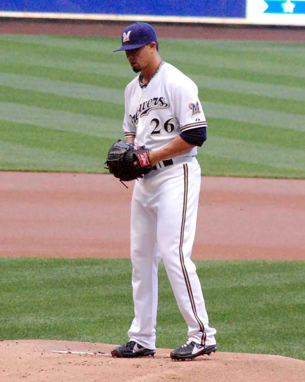 Kyle Lohse pitching for the Milwaukee Brewers against the St. Louis Cardinals at Miller Park in Milwaukee, Wisconsin in 2013.